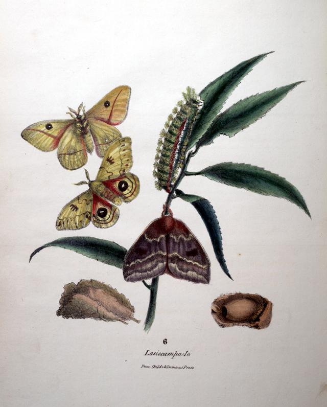 Description from Academy of Natural Sciences website: The Titian Peale Butterfly and Moth Collection Automeris io (the "Io Moth") is a widespread North American member of the wild silk moth family, Saturniidae. Peale collected and reared larvae of this common moth and apparently he mistakenly believed it to be a member of the "tent caterpillar" family Lasiocampidae. The incorrect generic name Lasiocampa appears on the plate depicting Automeris io that was published as part of Peale's prospectus for Lepidoptera Americana (1833).